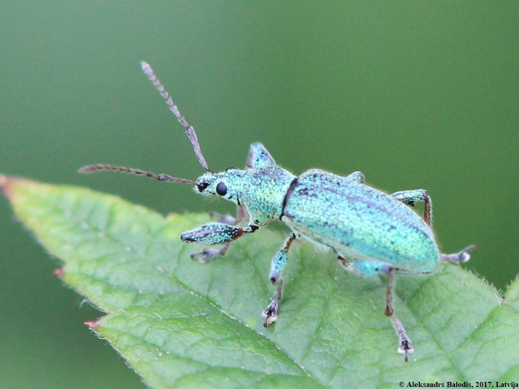 Phyllobius arborator